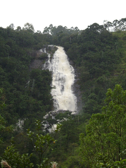 Picture from Preto's Waterfall, at Joanopolis (SP) - Brazil.